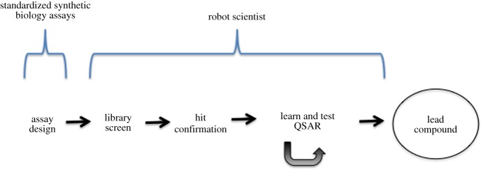 Early stage drug design. The contribution of standardized synthetic biology assays and Eve to a cheaper faster drug discovery pipeline. (Online version in colour.)